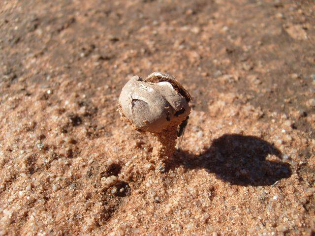 The fungus Tulostoma simulans Lloyd. Specimen photographed south west of Tucson Arizona, in the Alter valley.